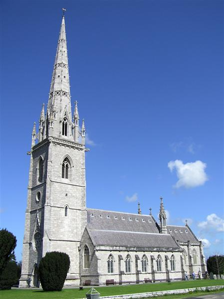 St Margaret's Church, Bodelwyddan. The building was completed in 1860